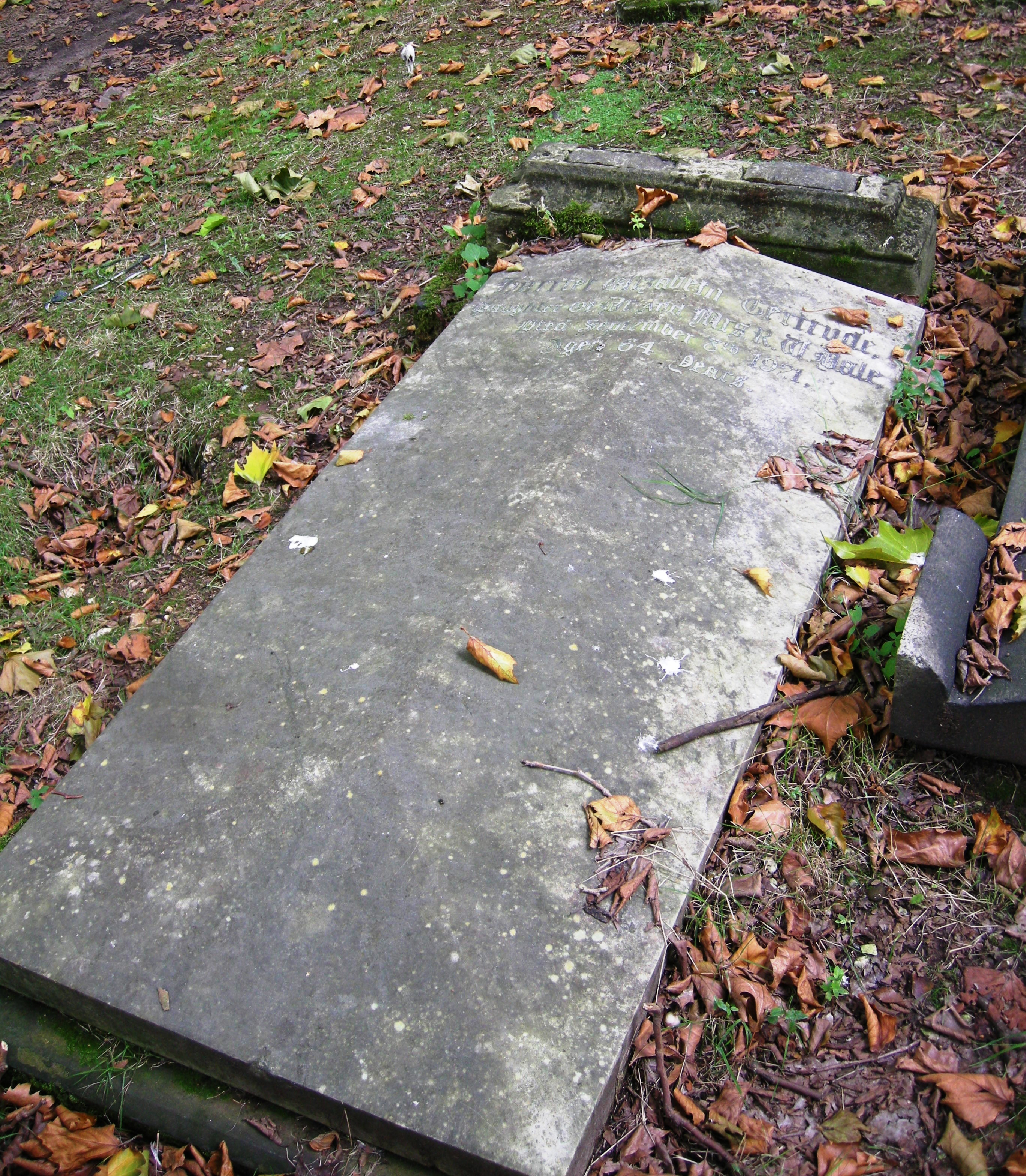 Grave of Robert William Dale (1829 – 13 March 1895) in Key Hill Cemetery. Hockley, Birmingham. The headstone commemorating Dale is lost: the surviving inscription commemorates his daughter, Harriet Elizabeth Gertrude Dale (d. 1921, aged 64).